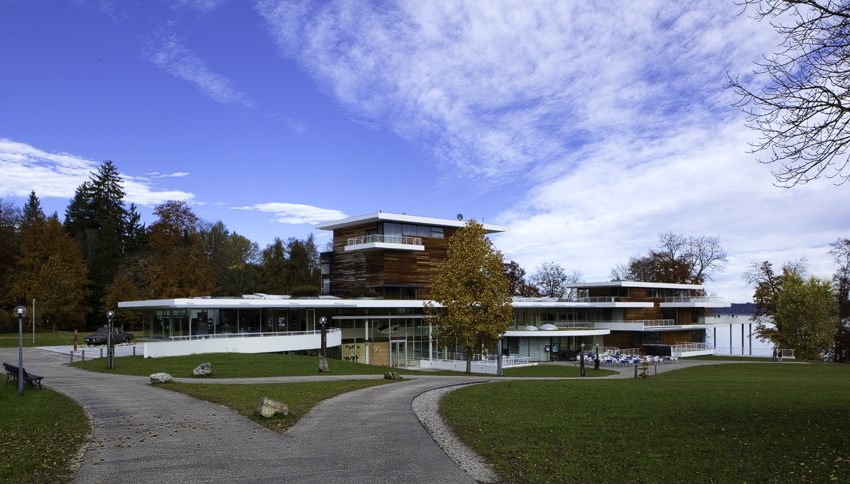 A view of the Buchheim museum in Bernried, Bayern, Germany.